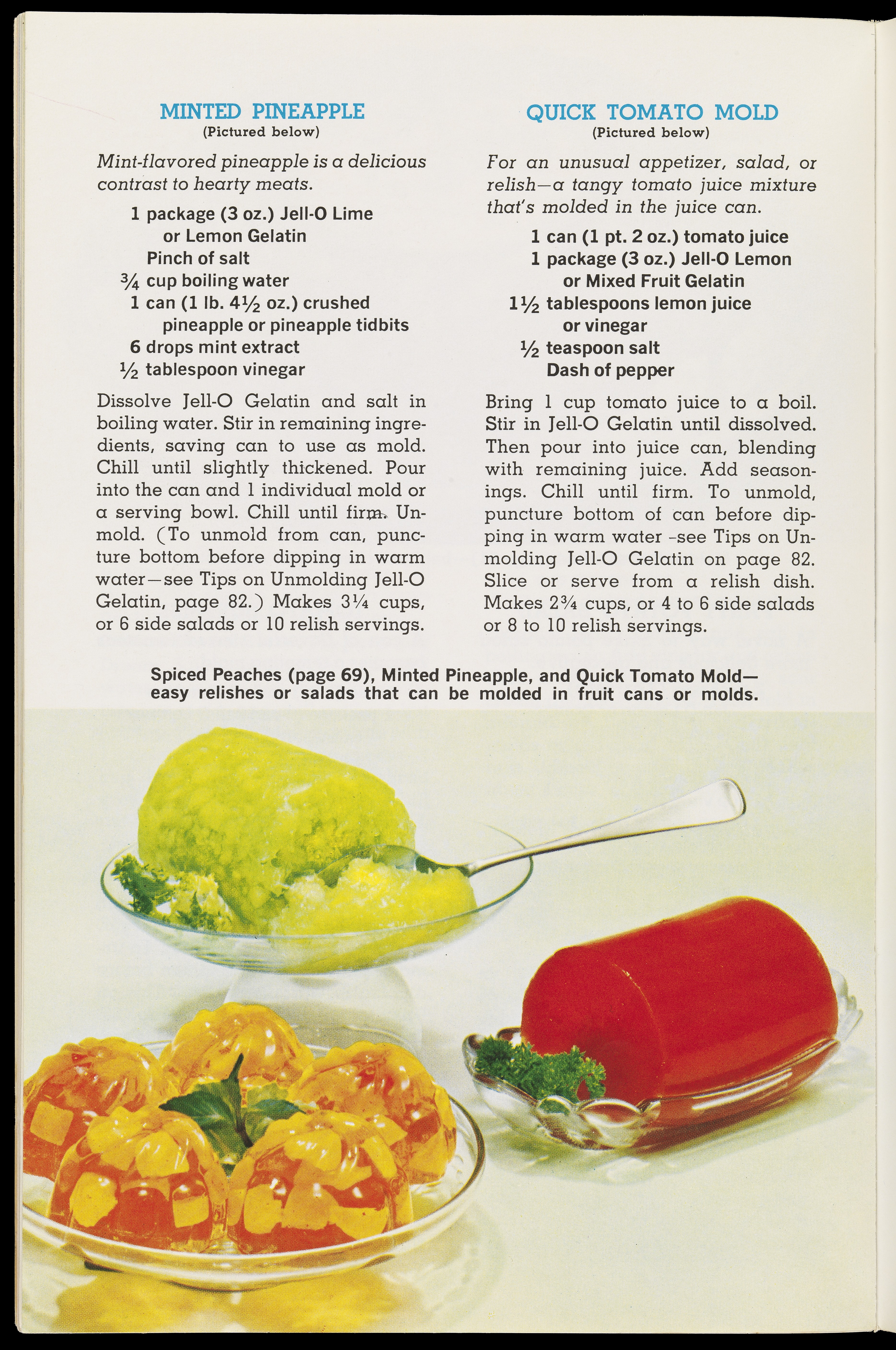 Illustrated recipes on p.68 of "Joys of Jell-O: gelatin dessert' booklet: "Minted Pineapple" and "Quick Tomato Mold". Wellcome Images Keywords: Cookery